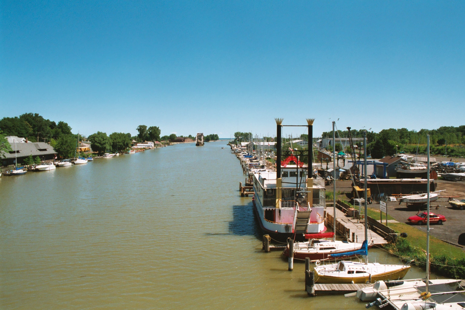 Genesee River, looking north from the no longer existing Stutson Street Bridge. To be seen on the east side is the Harbor Town Belle, a 80 foot paddle wheeler.